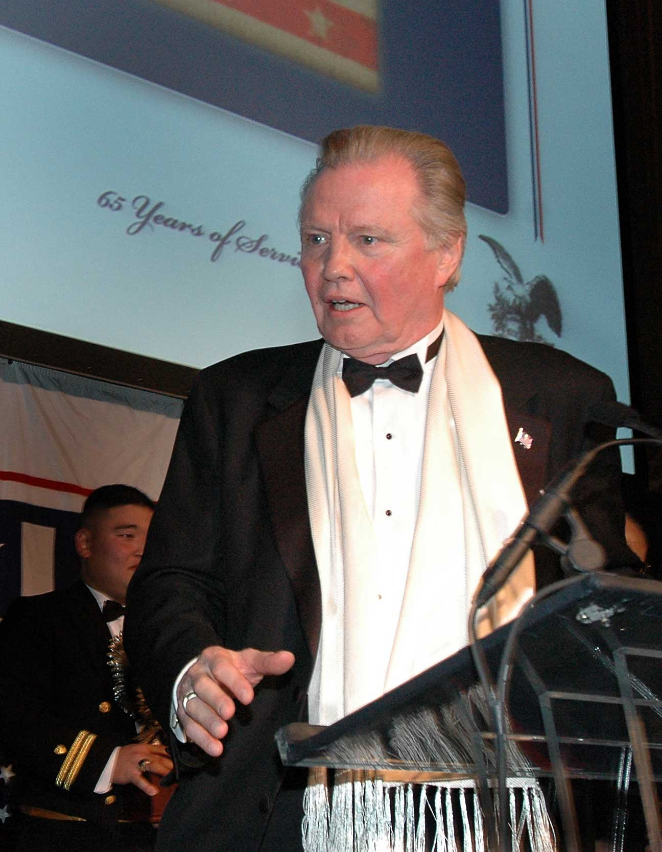 Master of Ceremonies, Jon Voight, jokes with the crowd before the presentation of the George M. Van Cleave Military Leadership Award during the 45th Annual Gold Medal Dinner & Armed Forces Gala in New York City, Dec. 7. The USO presented former Commandant of the Marine Corps, Gen. Michael W. Hagee with the USO Gold Medal Award at the event.